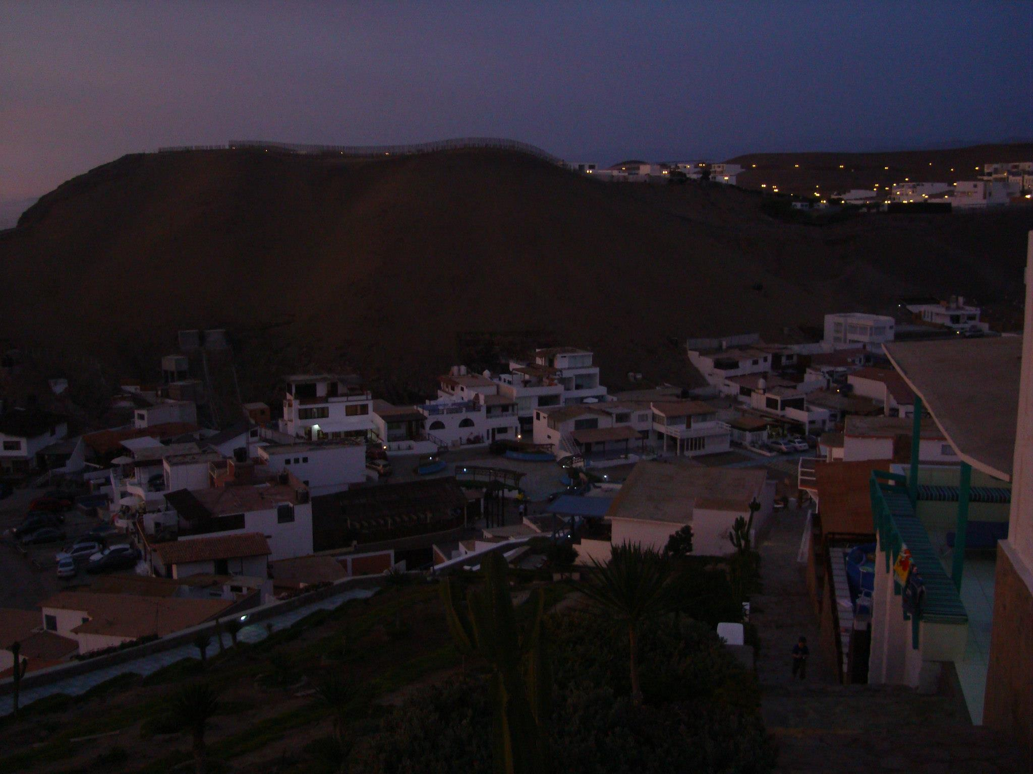 Puerto Fiel, Peru.